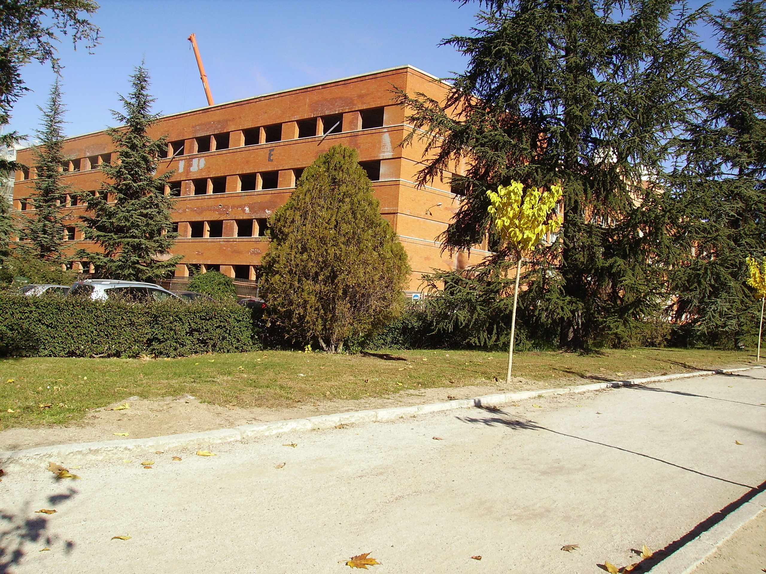 Cdad. Universitaria, Madrid, Spain